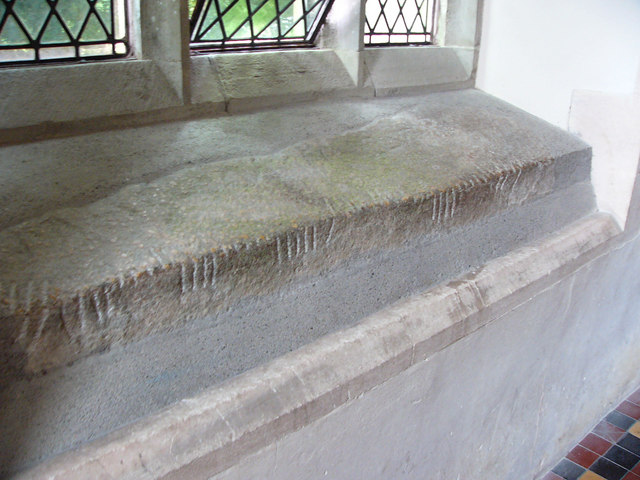 Ogham inscription Nevern church Maglocunus Stone is one of the few existing stones with inscriptions in both Latin and Ogham script.